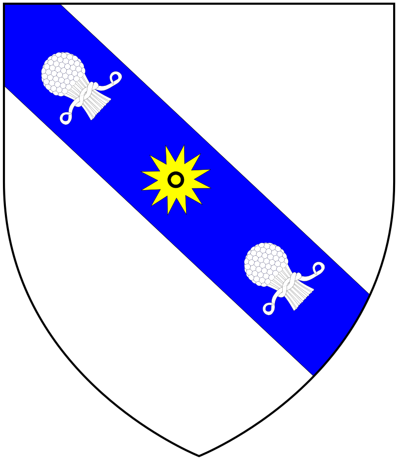 Canting arms of Spurway of Spurway in the parish of Oakford, Devon: Argent, on a bend azure a spur-rowel or between two garbs of the first (Vivian, Lt.Col. J.L., (Ed.) The Visitations of the County of Devon: Comprising the Heralds' Visitations of 1531, 1564 & 1620, Exeter, 1895, p.716).